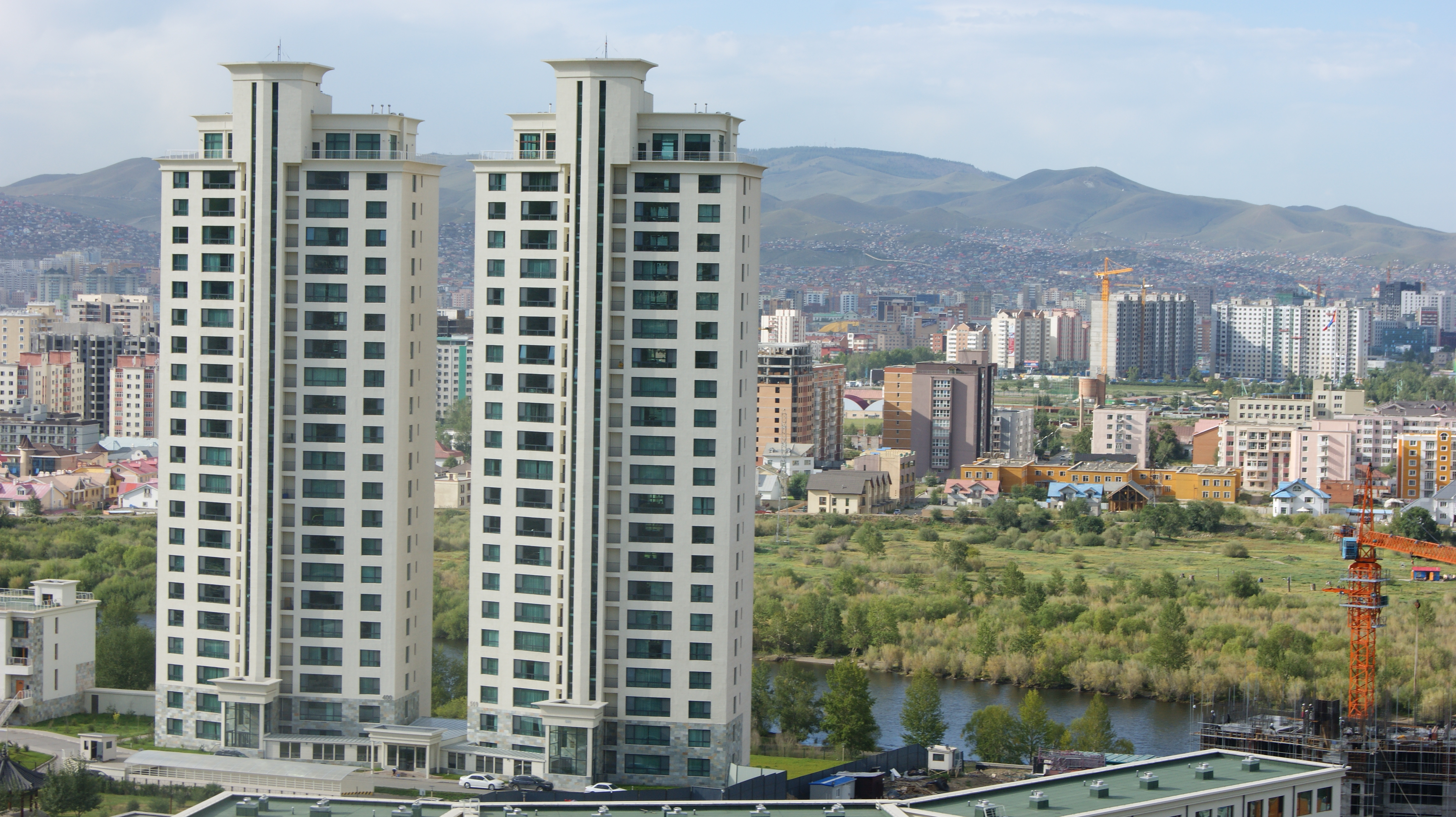 Улан-Батор. Вид из гора Зайсан. Осень 2012